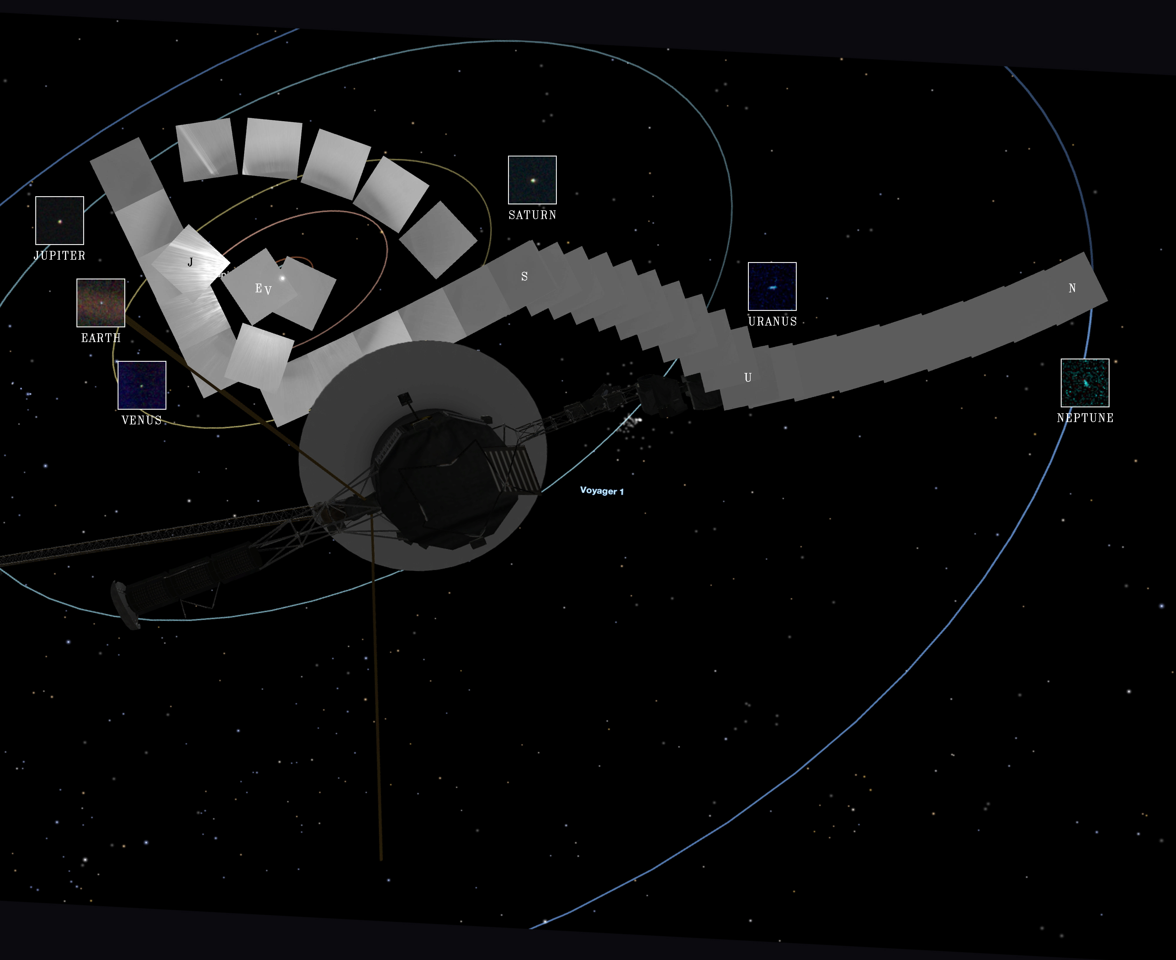 PIA23681: Voyager 1 Perspective for Family Portrait This simulated view, made using NASA's Eyes on the Solar System app, approximates Voyager 1's perspective when it took its final series of images known as the "Family Portrait of the Solar System," including the "Pale Blue Dot" image. Figure 1 shows the location of each image.